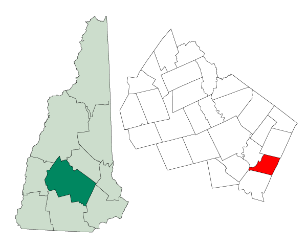 Map of a municipality in Merrimack County, New Hampshire